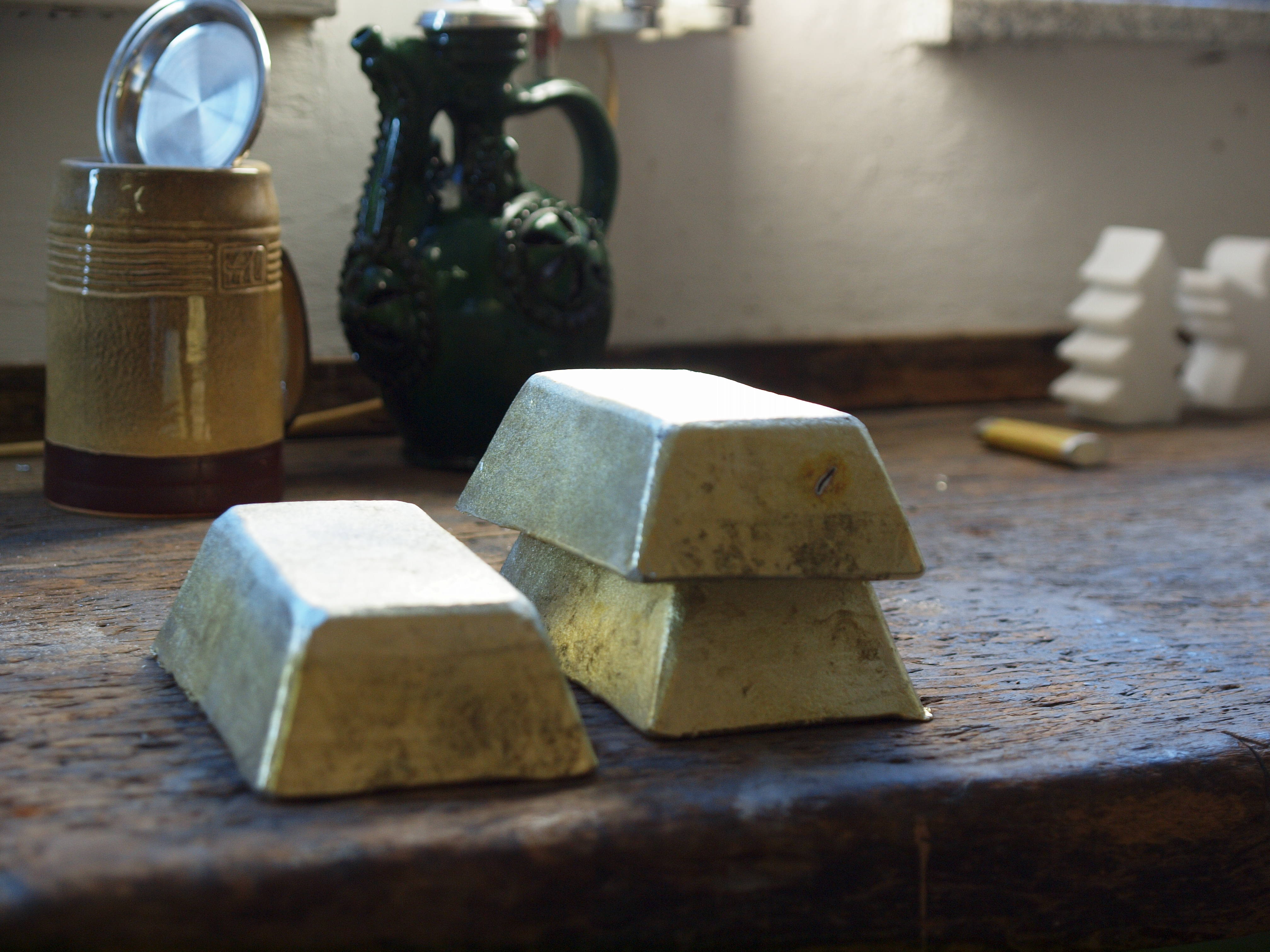 Ludwig Mory tin pewtery